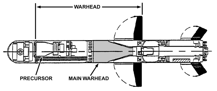 FGM-148 Warhead